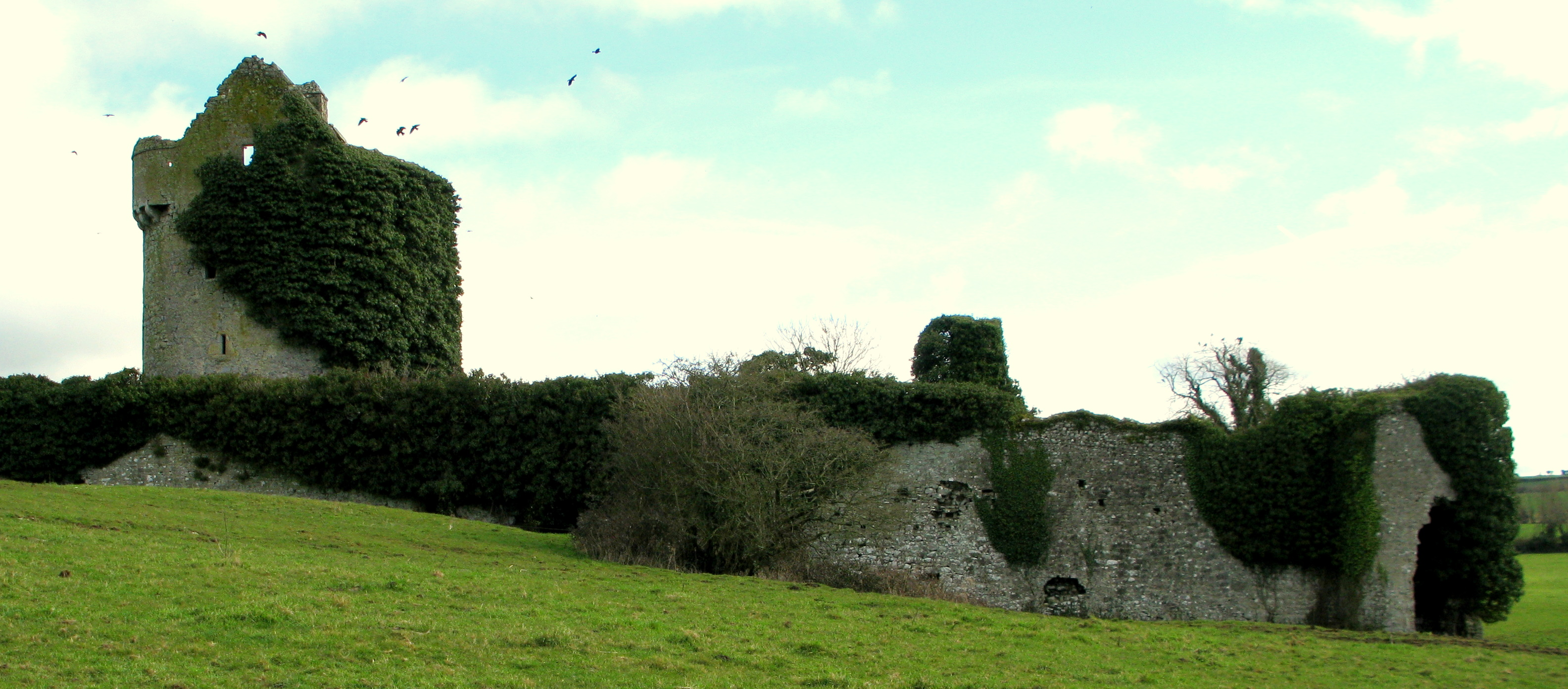 Moorstown Castle, located between Clonmel and Cahir, County Tipperary, Ireland.